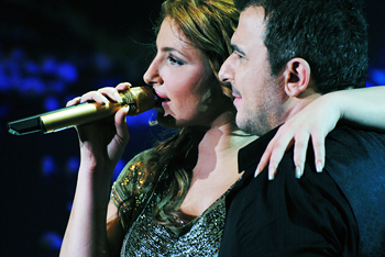 Helena Paparizou performing with Antonis Remos in Athens at Diogenis Studio in winter season 2010/2011